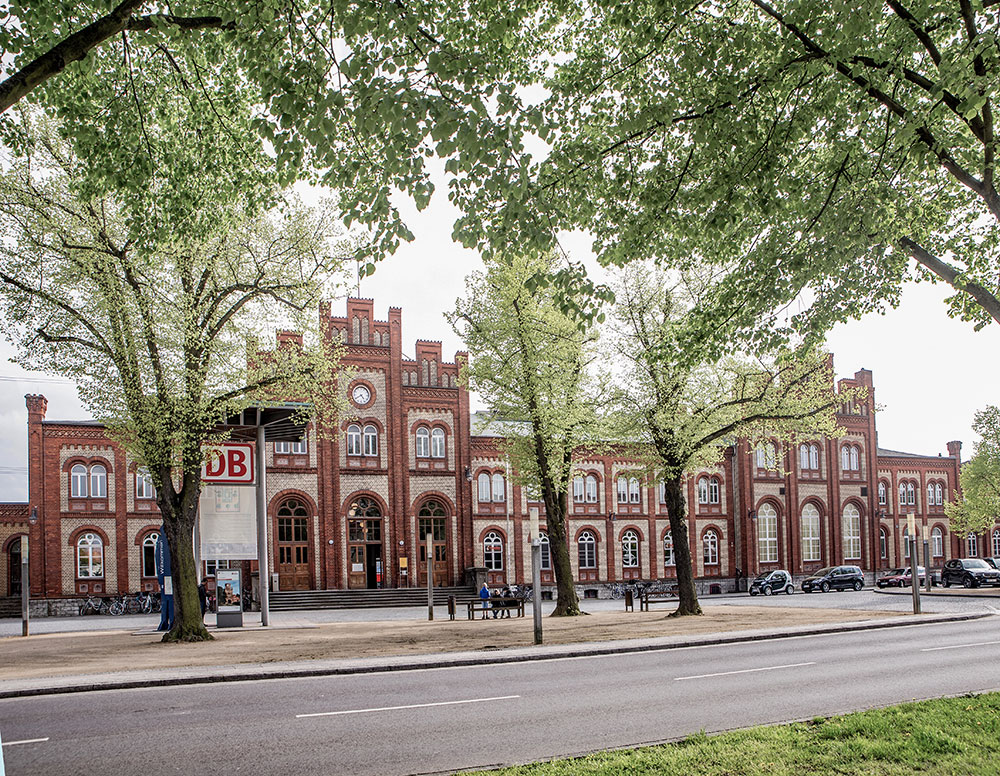 Stendal Bahnhofstraße 34, Main Station, cultural heritage monument